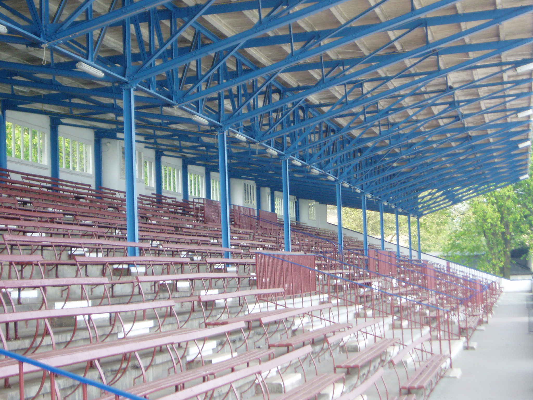 stand of the Regattastrecke Berlin-Grünau